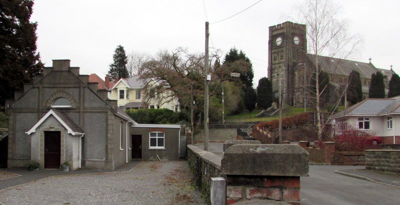 Baptist church and Anglican church in Ammanford. English Baptist Church in Brynmawr Lane on the left. All Saints Church in Wales church on the right.